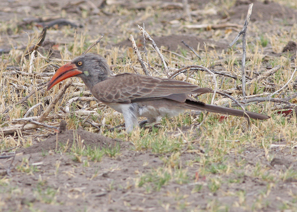 Bradfield's Hornbill (Lophoceros bradfieldi), Botswana